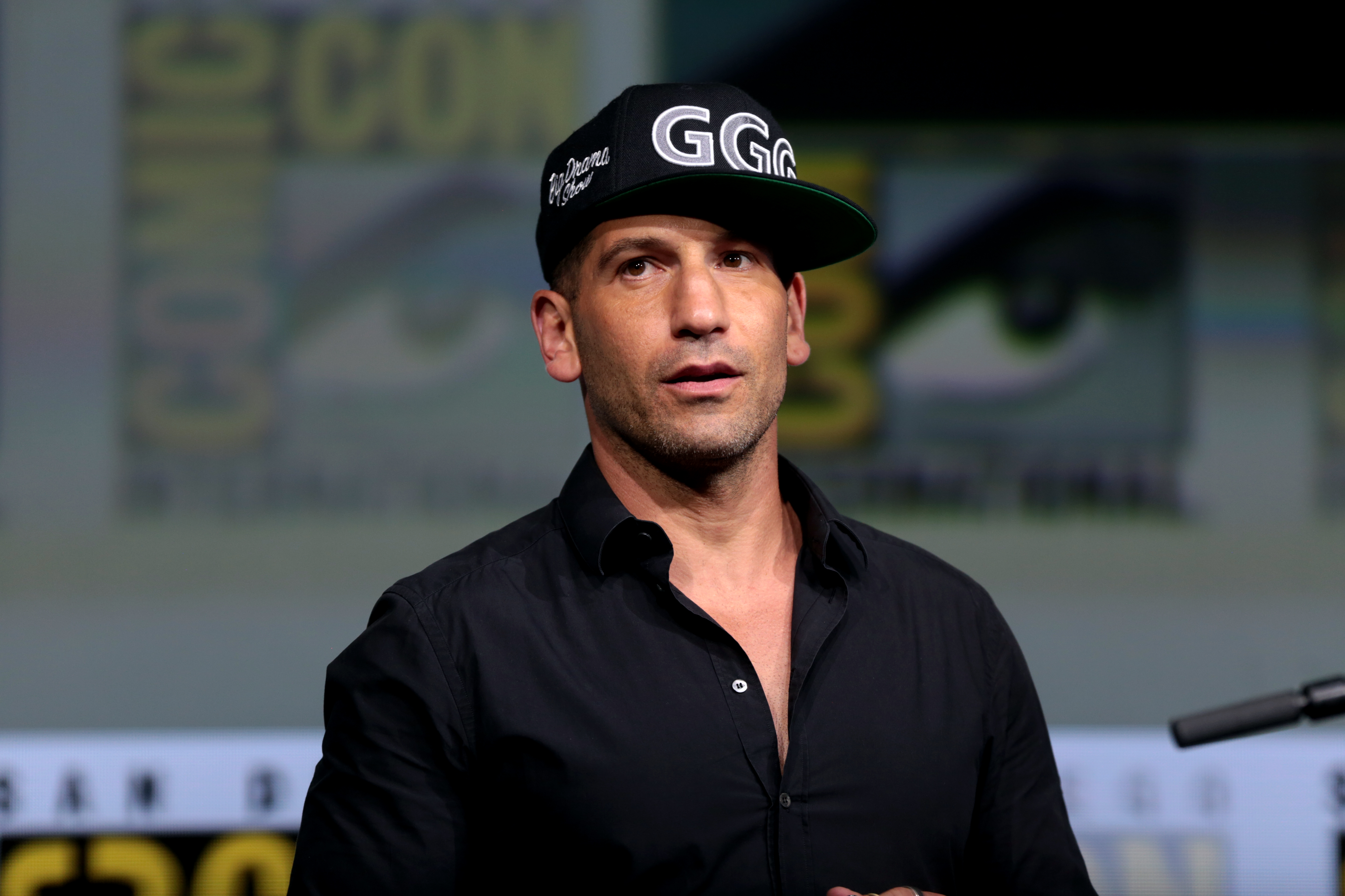 Jon Bernthal speaking at the 2017 San Diego Comic Con International, for "Marvel's The Punisher", at the San Diego Convention Center in San Diego, California.